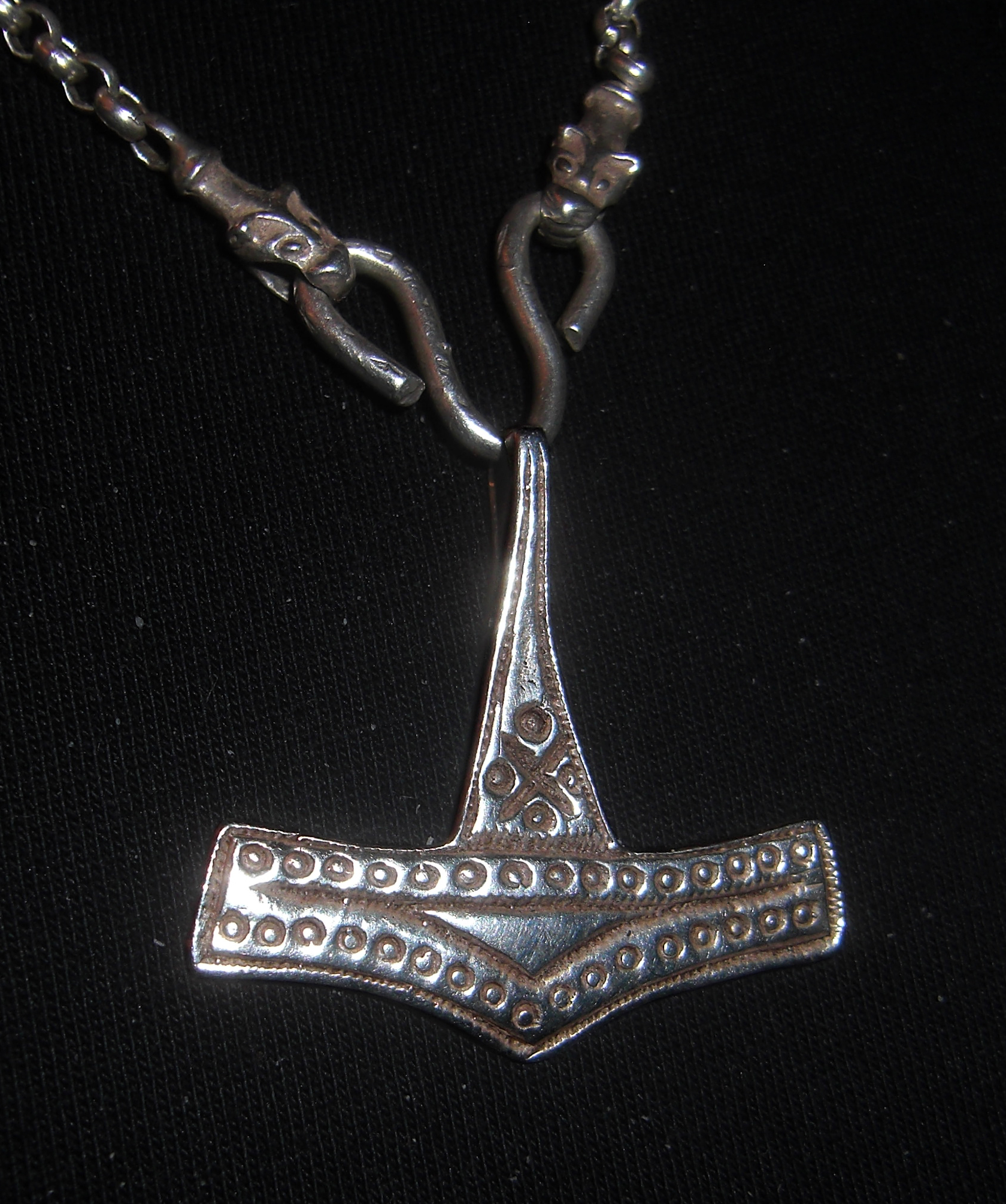 Amulet of Thor's hammer (Mjolnir) worn by a Swedish practitioner of Forn Sed. The hammer is a commersial copy of an archaeological find from Rømersdal, Bornholm, Denmark.